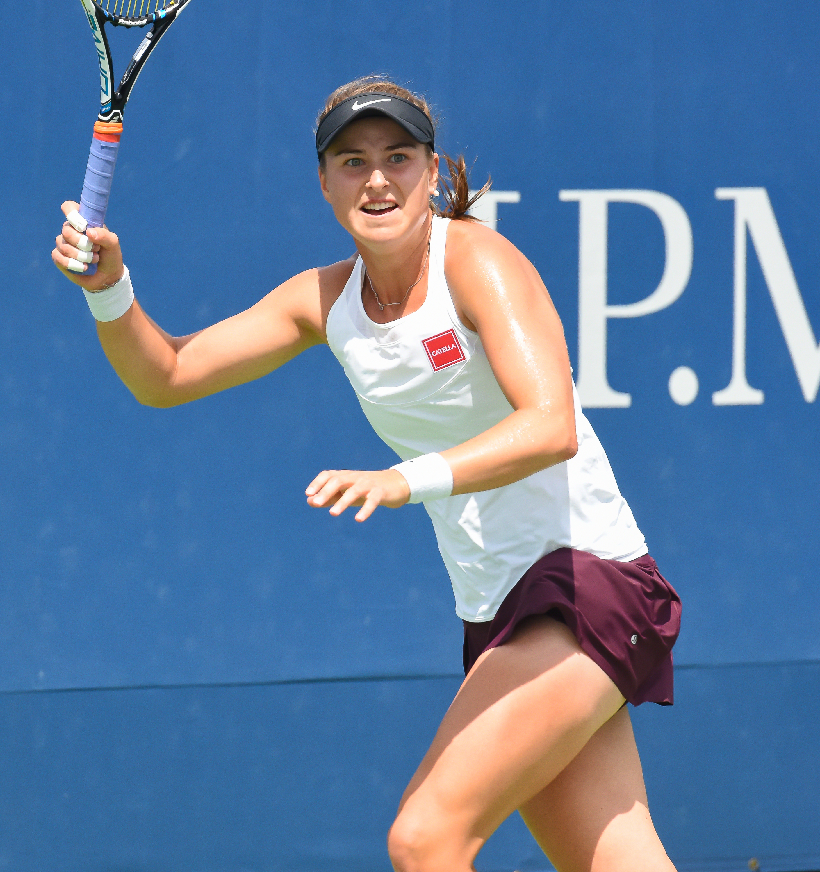 August 25, 2017 Court 8 Flushing, NY Rebecca Peterson.